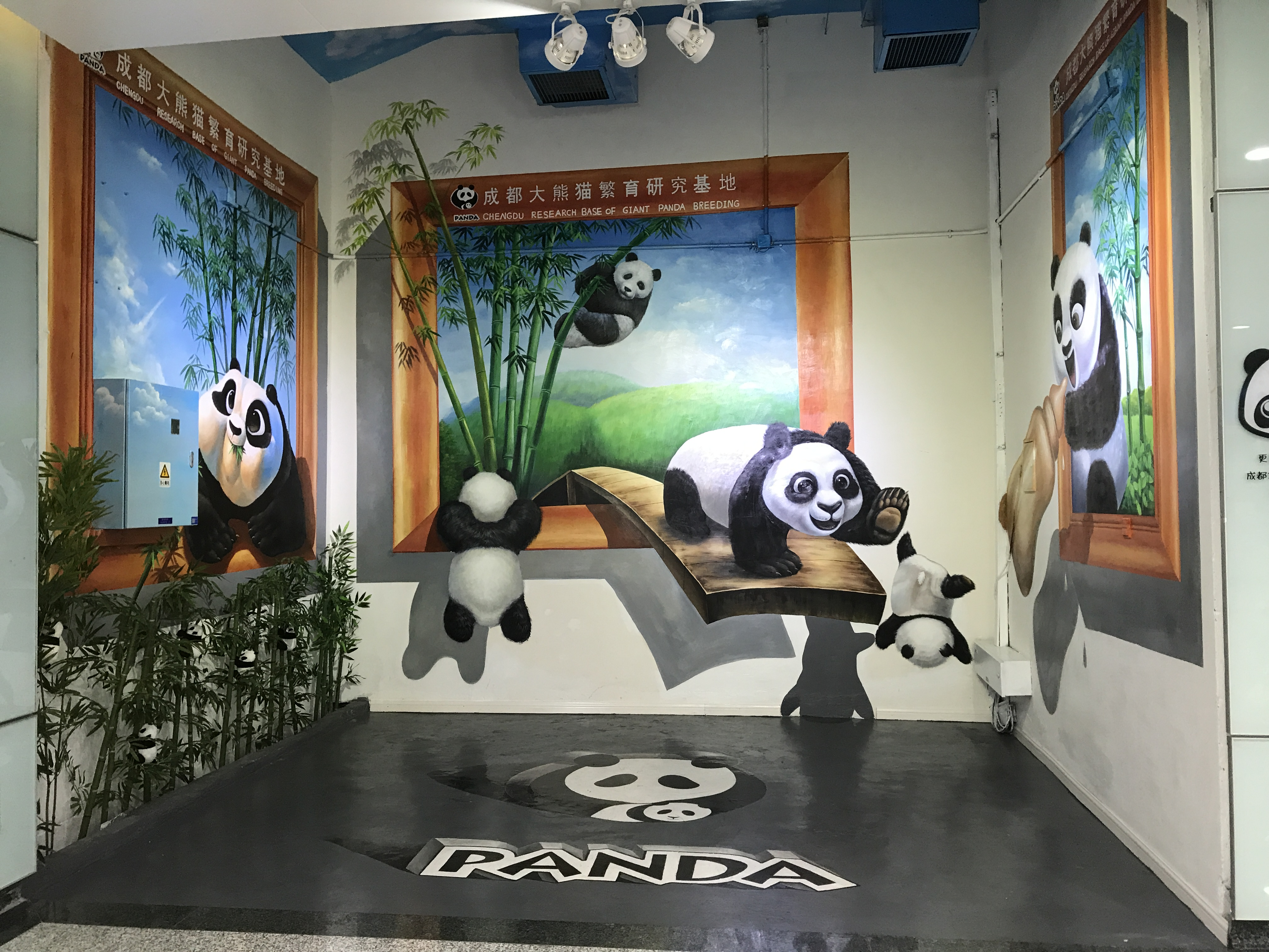 Artwall in Terminal 1 of Shuangliu International Airport Station, Chengdu Metro